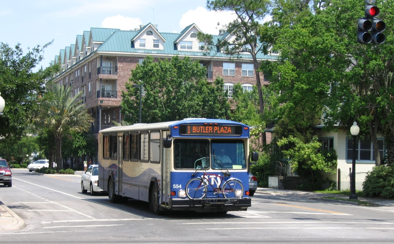 Gainesville City Bus